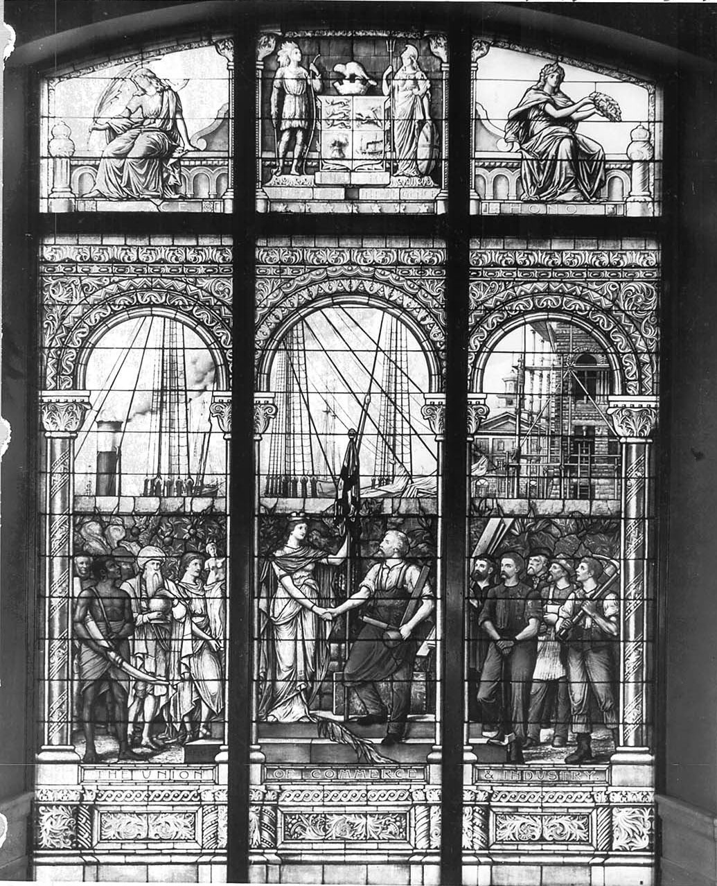 Stained glass window at City Hall. (Toronto, Canada)